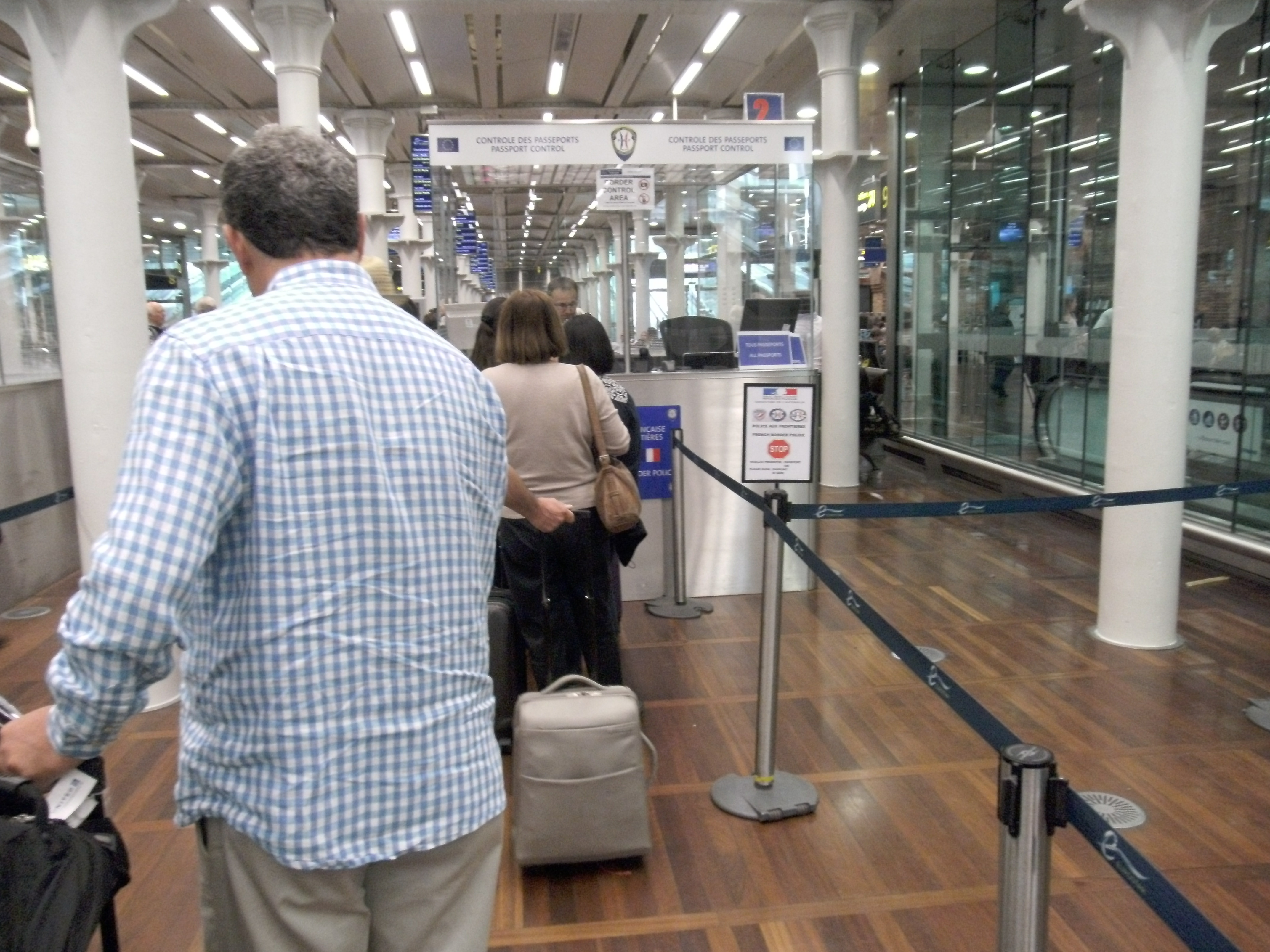 French immigration control at London's St Pancras International